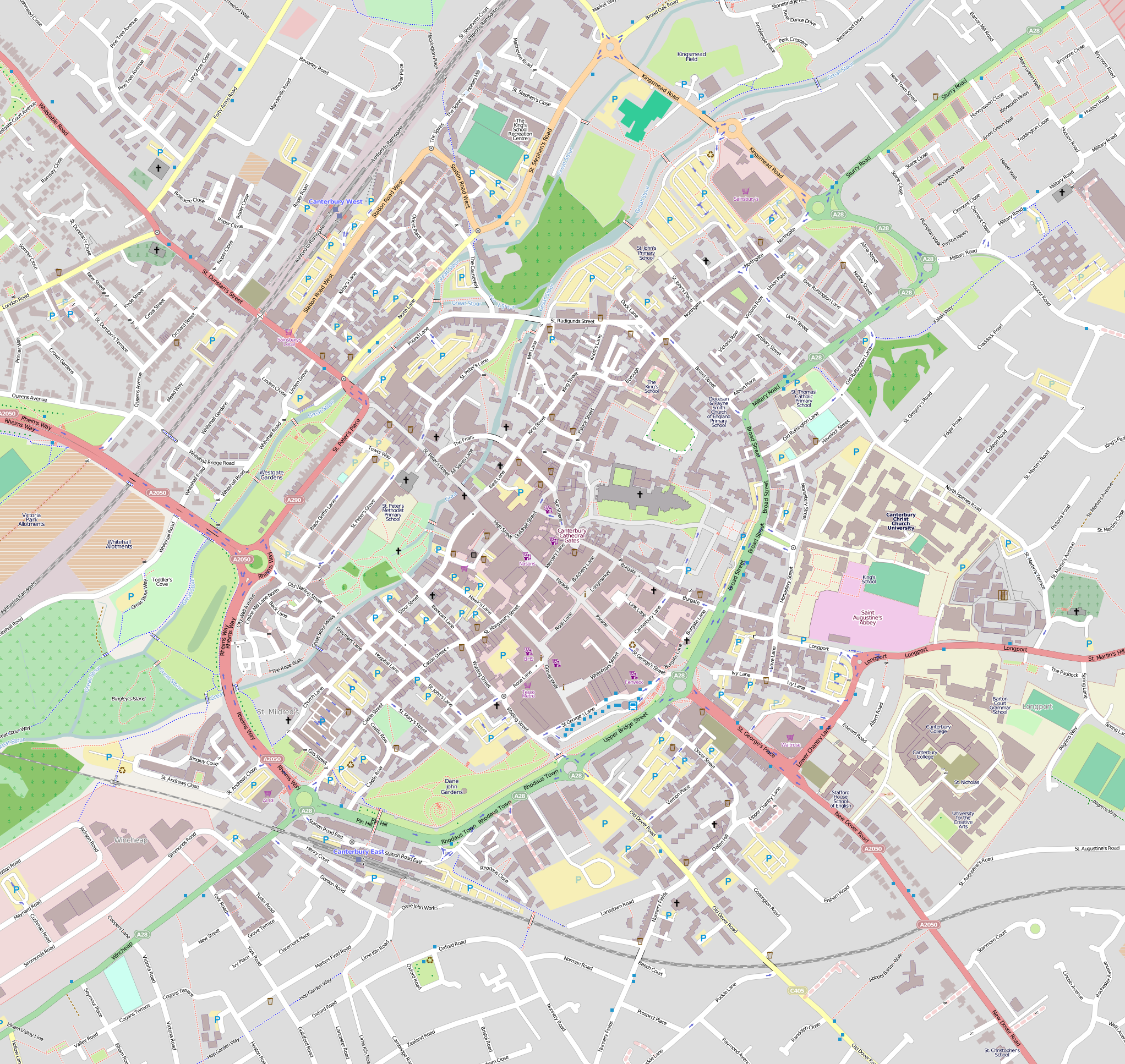 Map of Canterbury Central Geographic limits: N: 51.28758° S: 51.27099° W: 1.06688° E 1.0949°